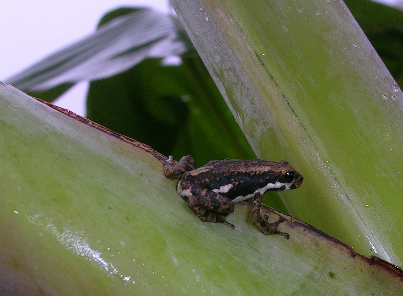 Pedostibes tuberculosus, Malabar Tree Toad (from Wayanad)